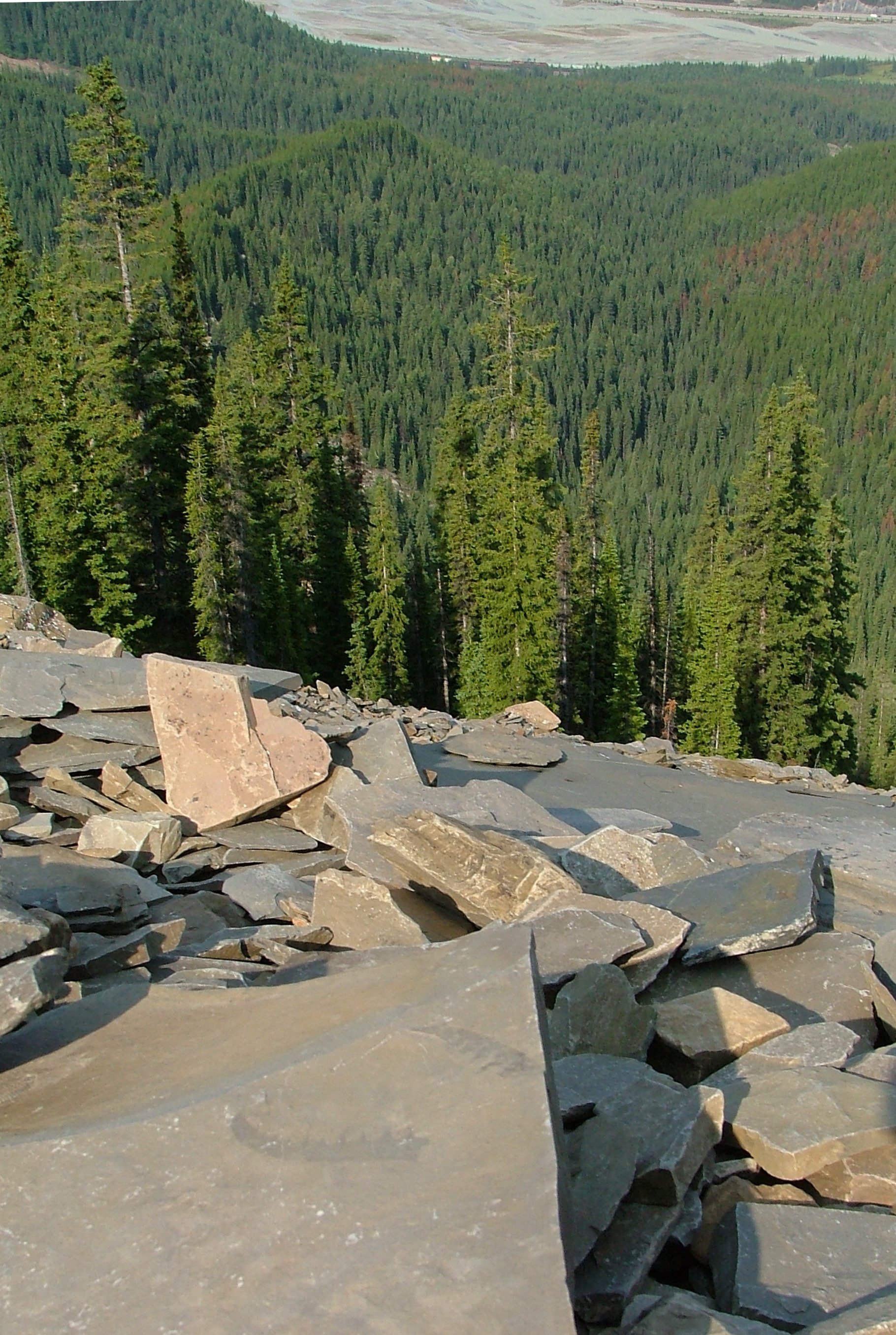 The view from the Trilobite Beds, with Anomalocaridid claws visible in the foreground, and the Canadian Pacific railway snaking through the Kicking Horse valley and Field in the far distance.